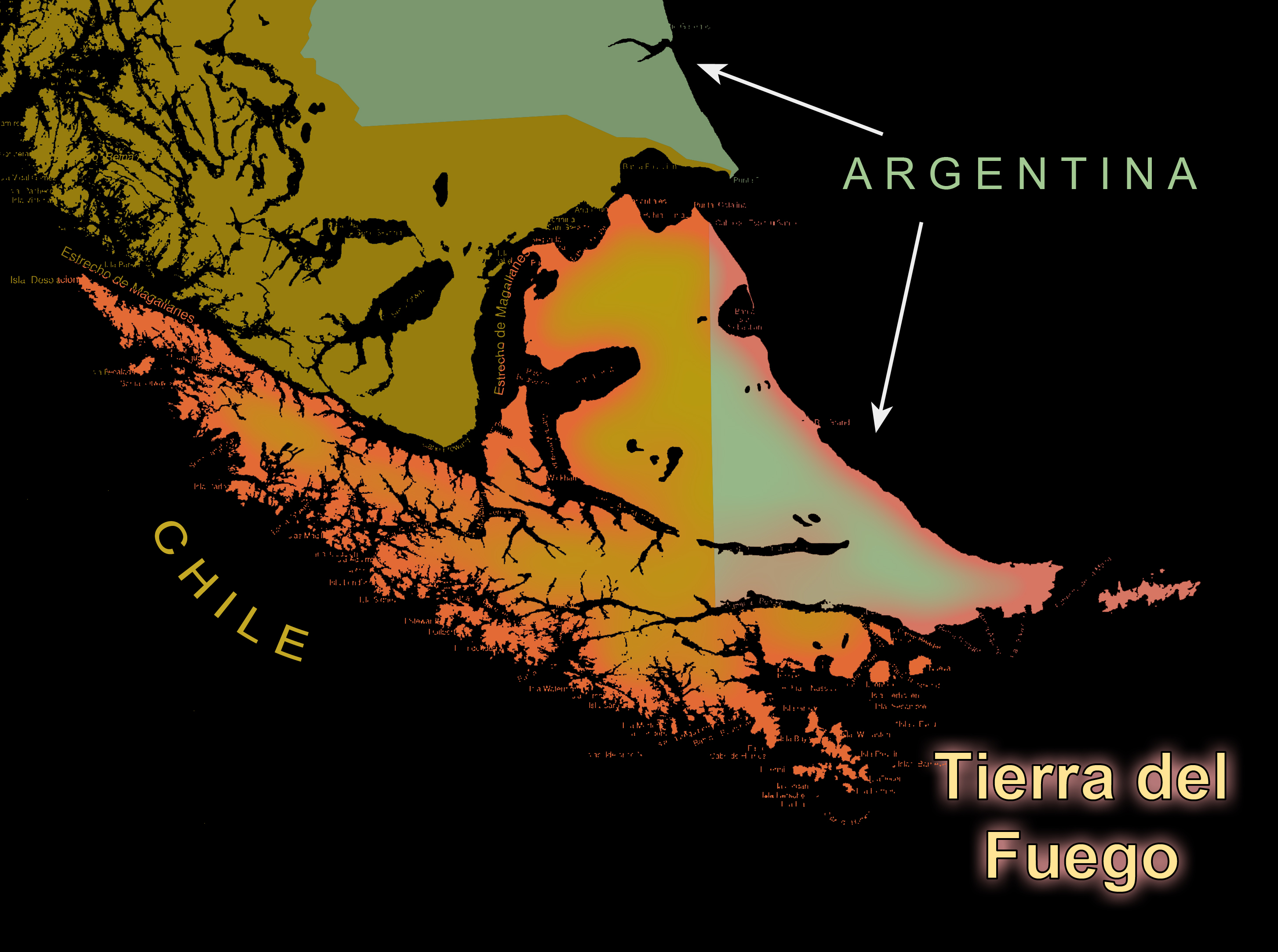 Graphic image of Tierra del Fuego archipelago showing current (2011) international boundary between Chile and Argentina